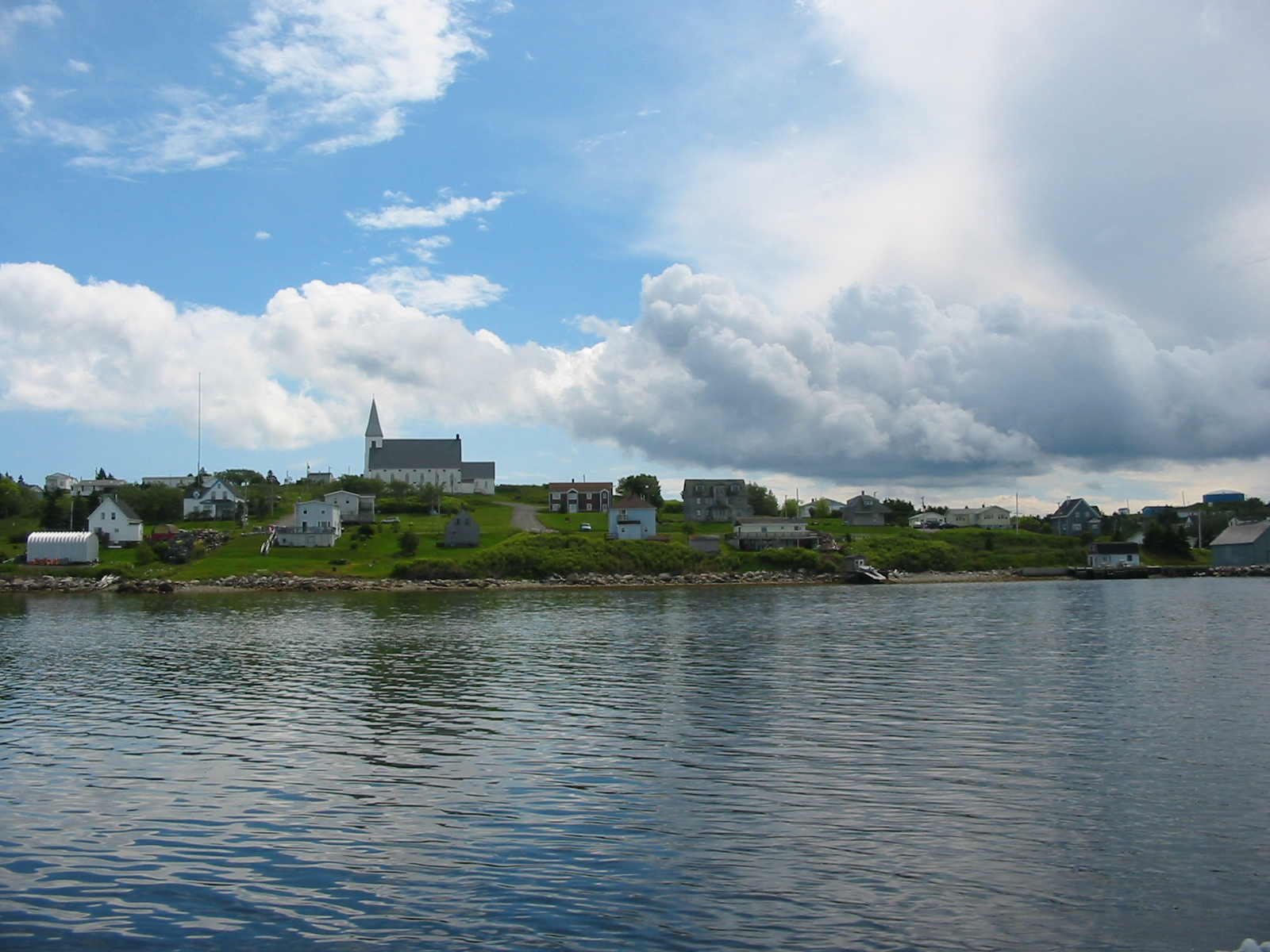 Canso, Nova Scotia, Canada, as seen returning from Grassy Island